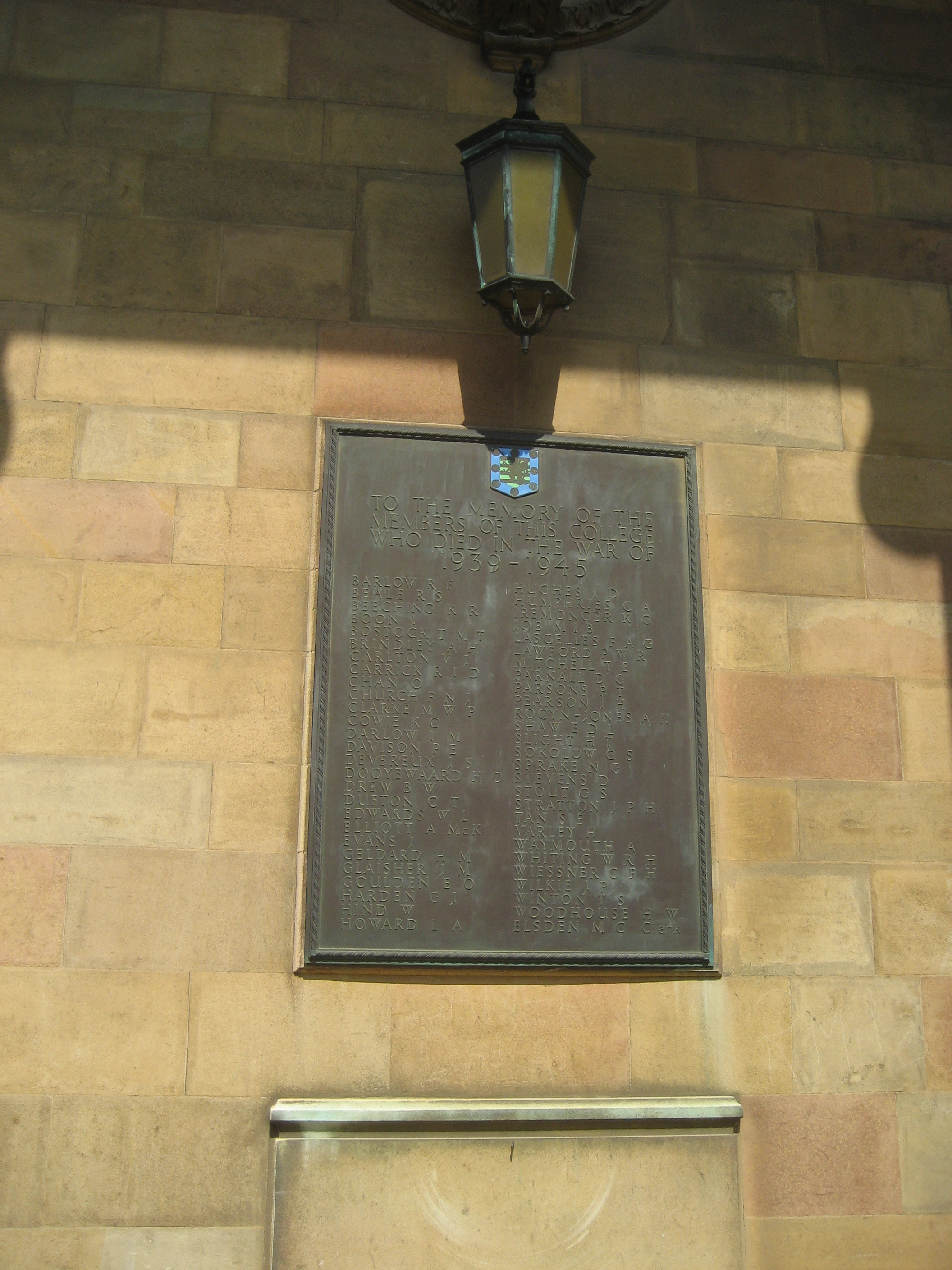 Downing College, Cambridge